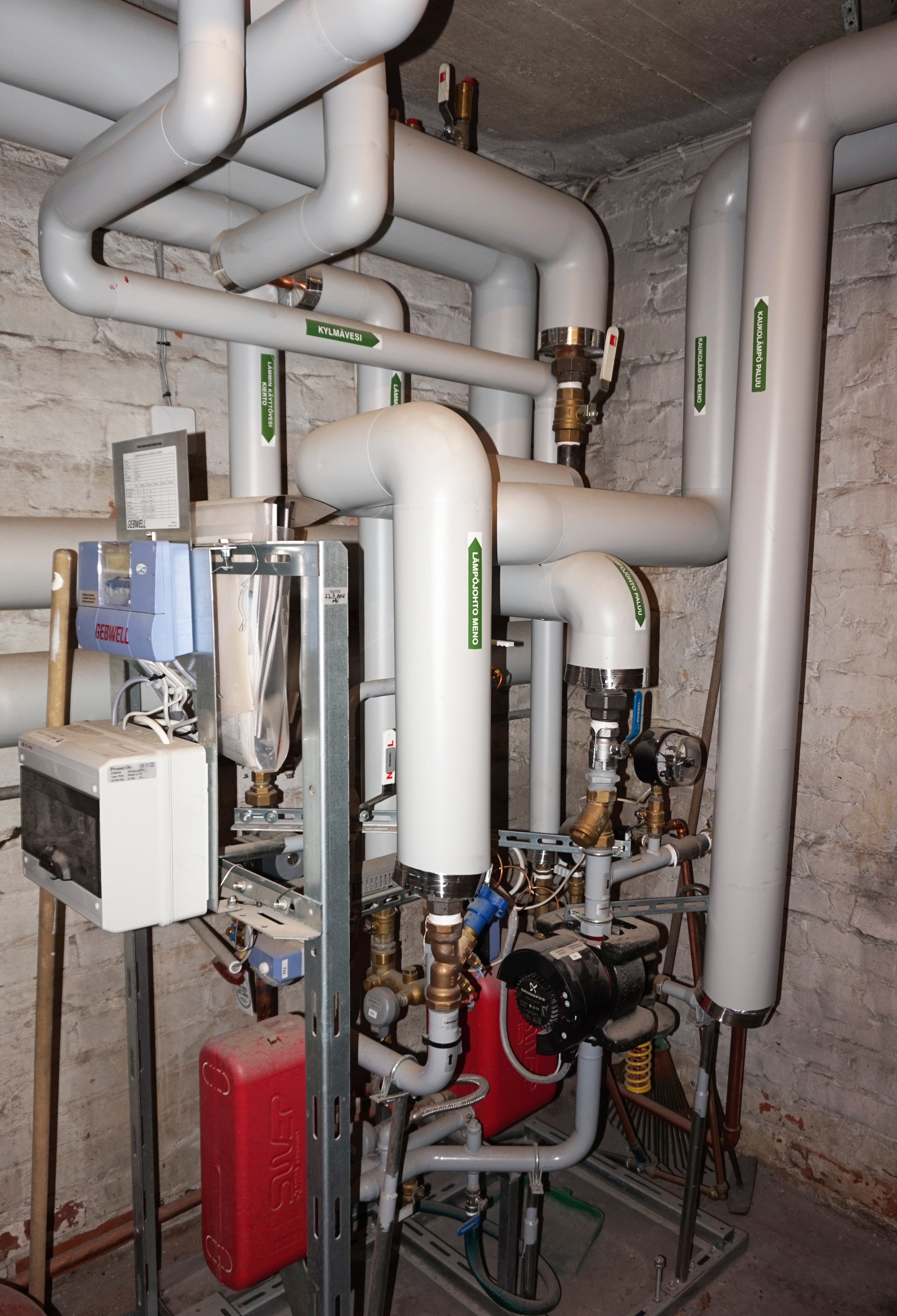 Gebwell district heating substation inside a building, Jyväskylä.